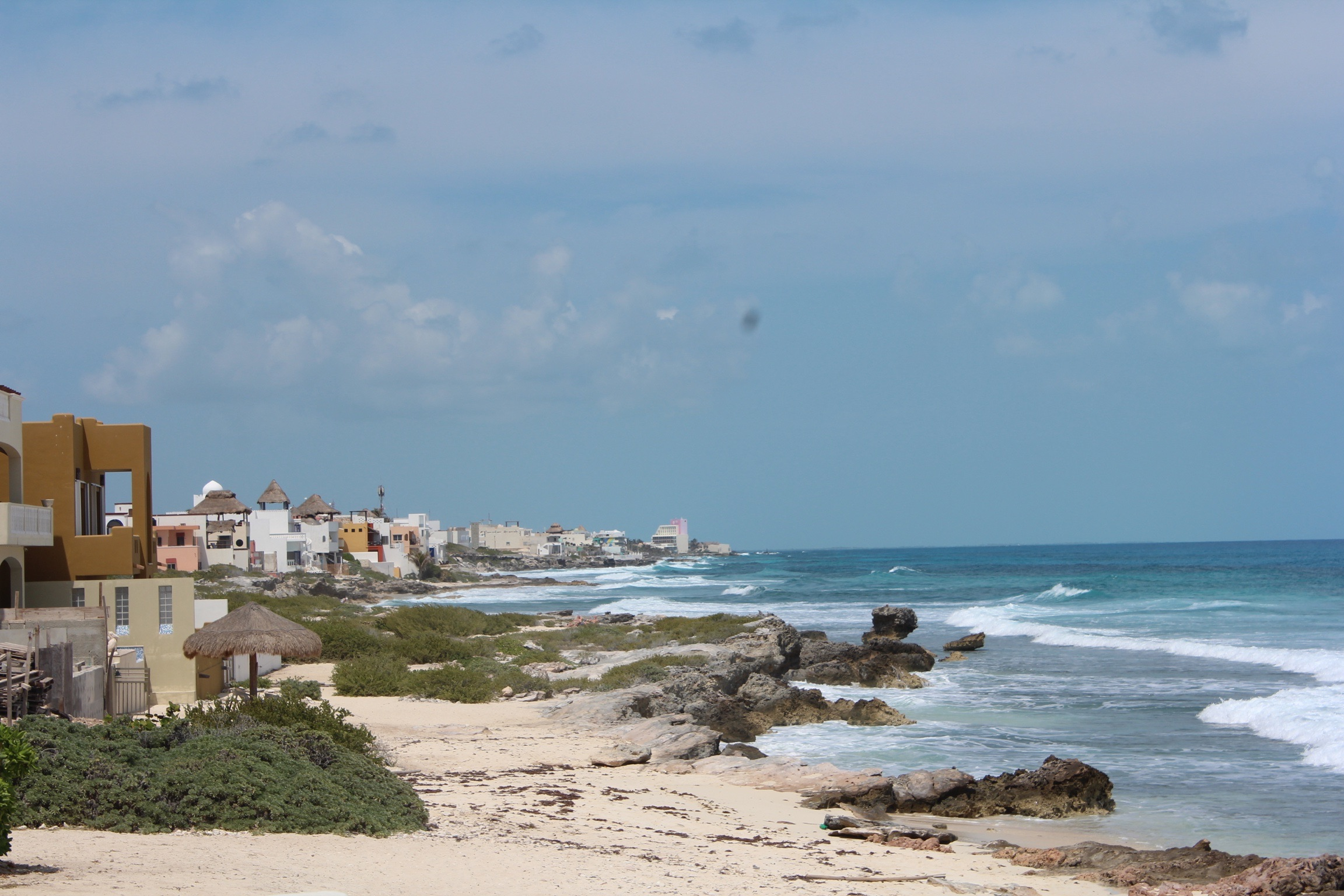 Photograph of the beach of Isla Mujeres, Mexico along a row of beach homes.